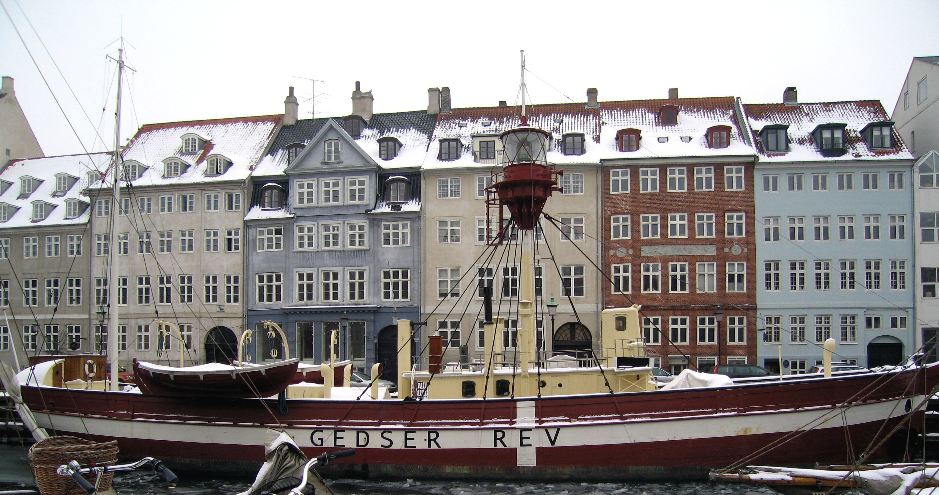 The light vessel Gedser Rev, taken on a cold winter day, by me, in 2006.